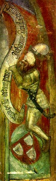 The self-portrait of the painter Johannes Aquila in Martjanci, northeastern Slovenia. It is located on the southern wall of the presbyterium in St. Martin's Church in Martjanci and dates to 1392. It is the oldest self-portrait in Slovenia and along with Aquila's self-portrait in Velemér, western Hungary, among the oldest in Europe. The Latin inscription reads "Omnes s(anct)i. orate. p(rom)e Johanne Aquile pictore", which means: "All the saints, pray for me, Johannes Aquila [John the Ev.], the painter." The coat of arms is the personal coat of arms of the painter and has the letter A inscribed on it.